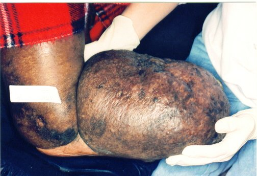 Taken in my medical practice by DrGnu. I hold the agreement. There is no identifier in the picture.